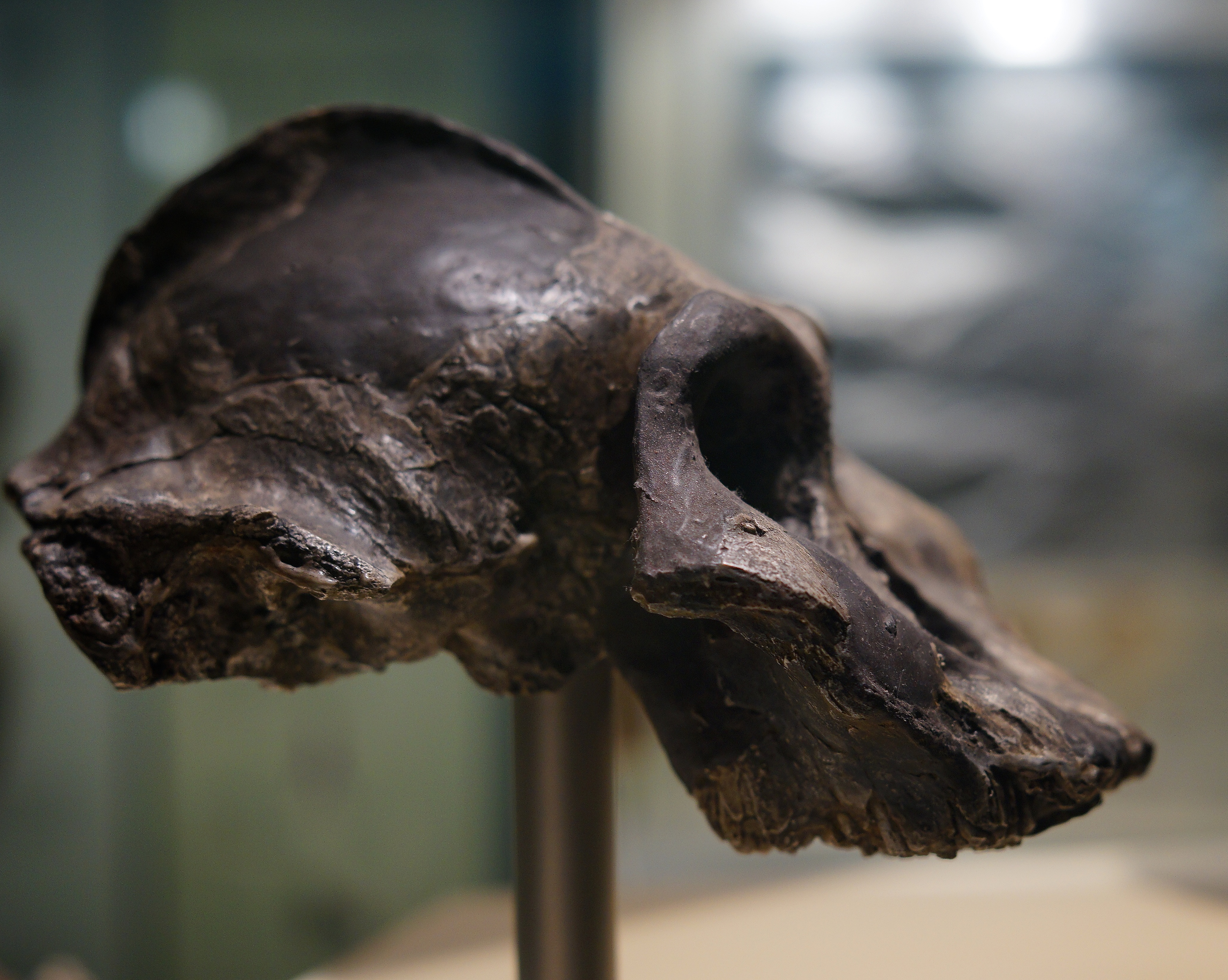 KNM-WT 17000 at the Natural History Museum